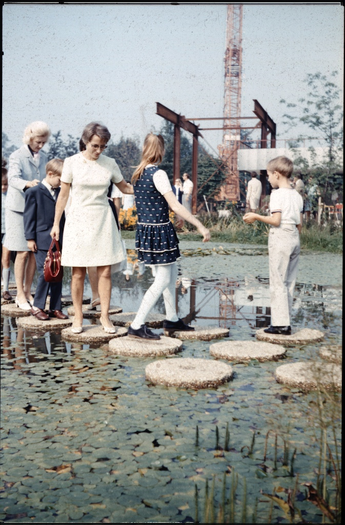 Photo from the 1st German Landesgartenschau at Grefrath, NRW